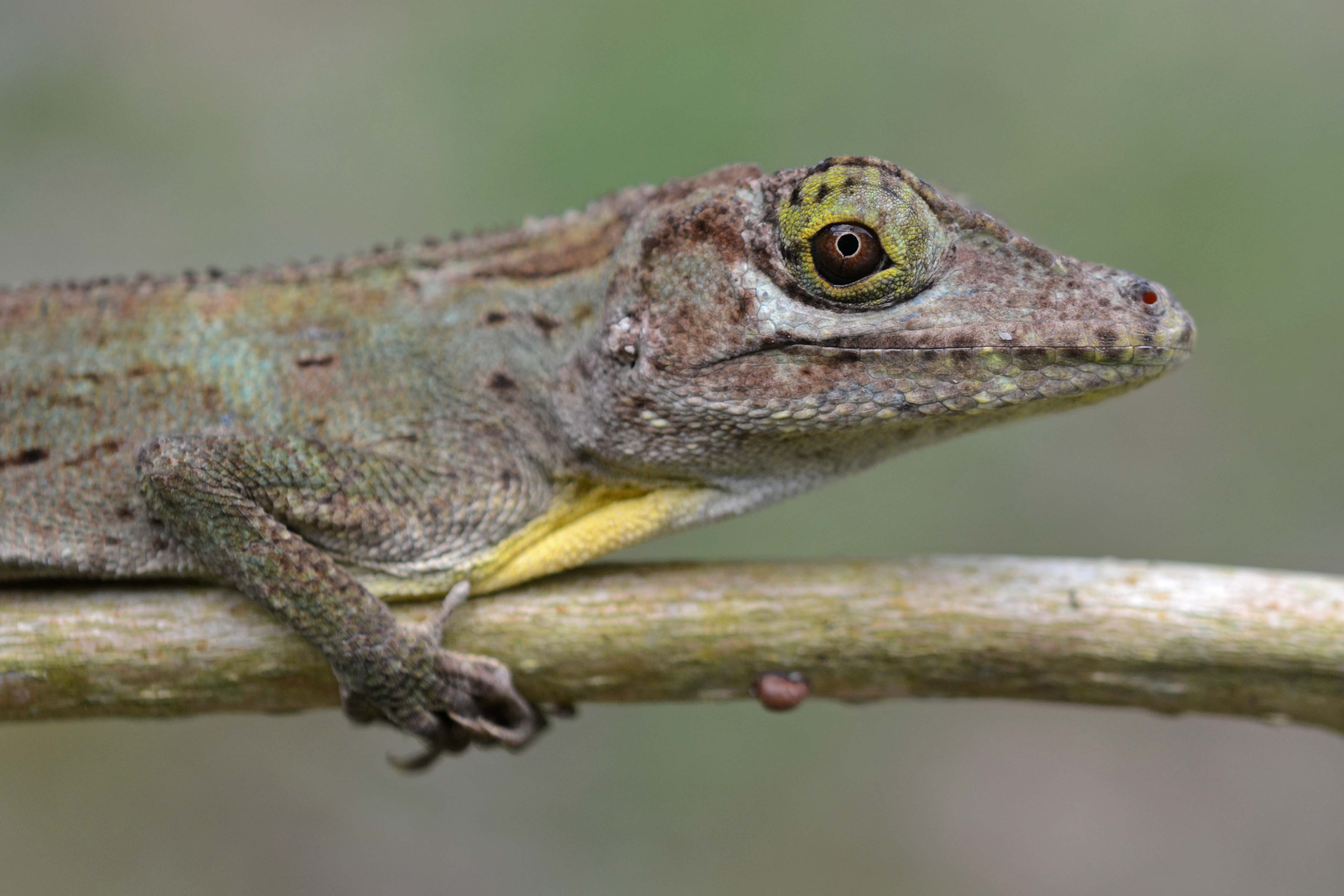 Puerto Rican giant anole (brown form) in Puerto Rico